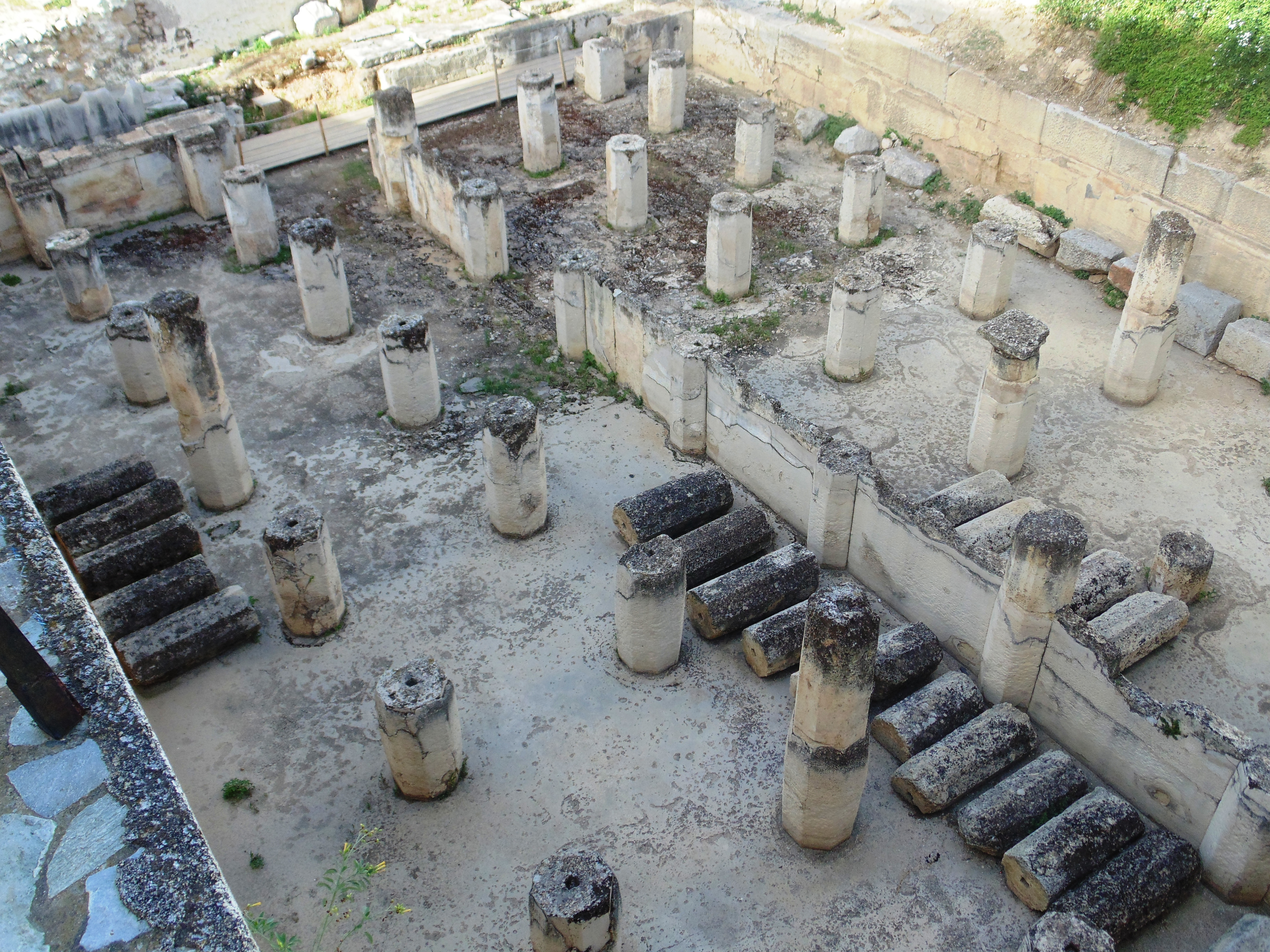 Theagenes fountain